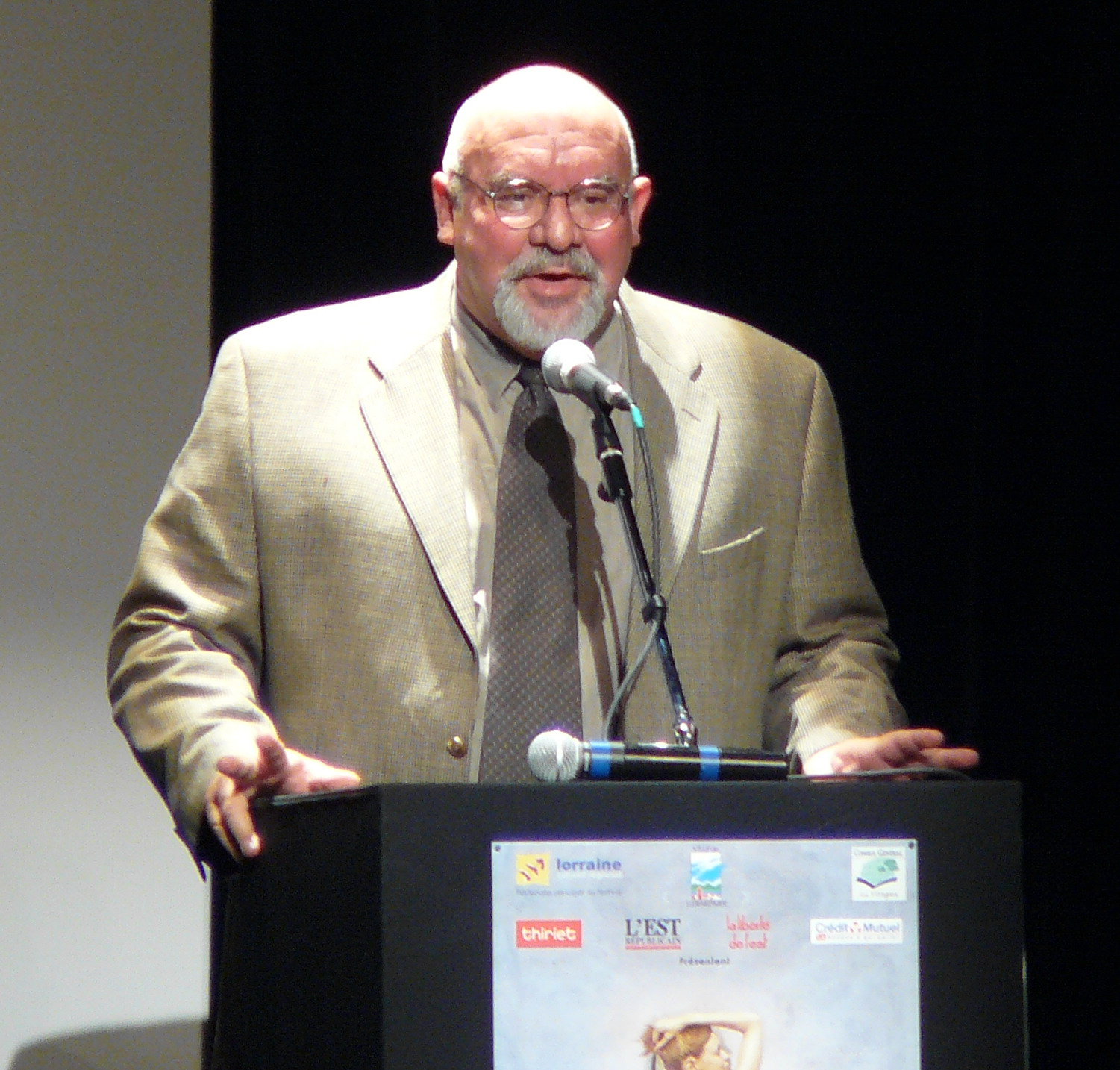 Stuart Gordon at Fantastic'Arts festival in 2008